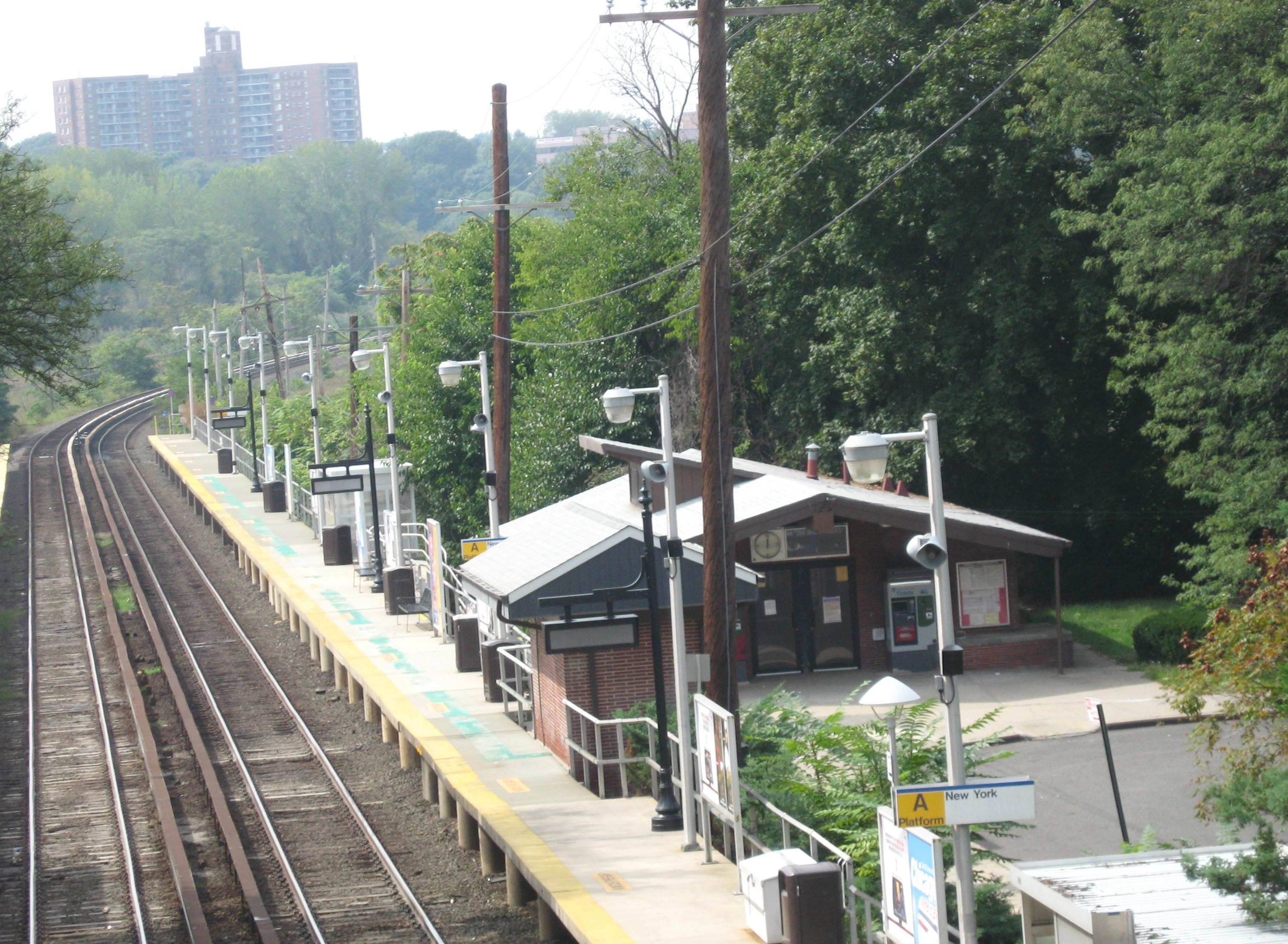 Looking West at Douglaston (LIRR station) from Douglaston Parkway overpass on a partly cloudy late morning